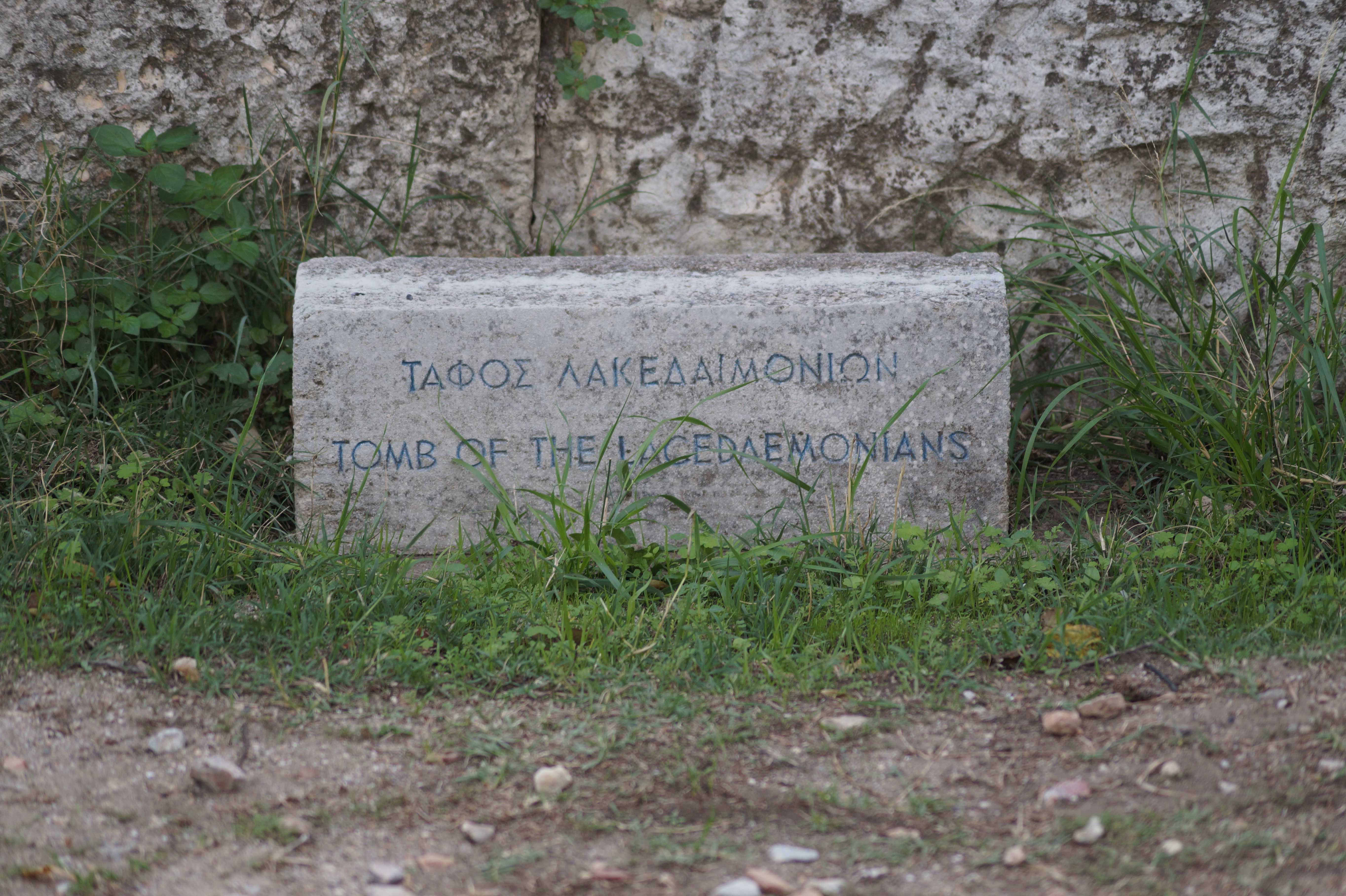 Kerameikos, Athens, Greece: Label at the Tomb of the Lacedaemonians.